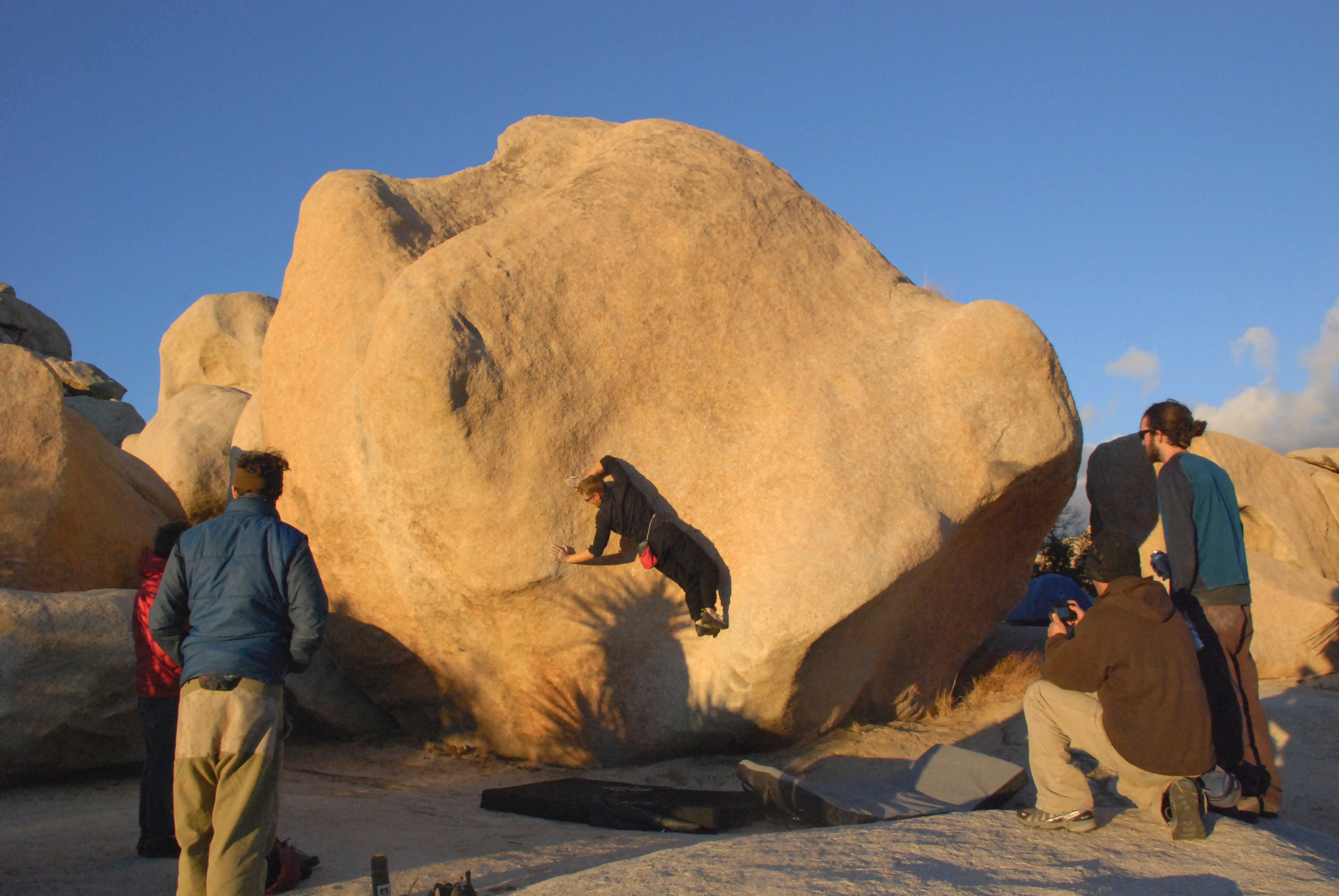 Climber on Stem Gem a classic V4 boulder problem in Joshua Tree National Park in Hidden Valley Campground